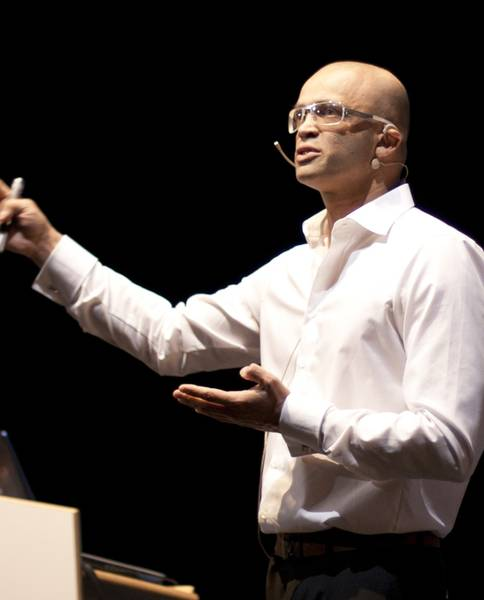 Dr. Homayun Gharavi MD PhD PhD